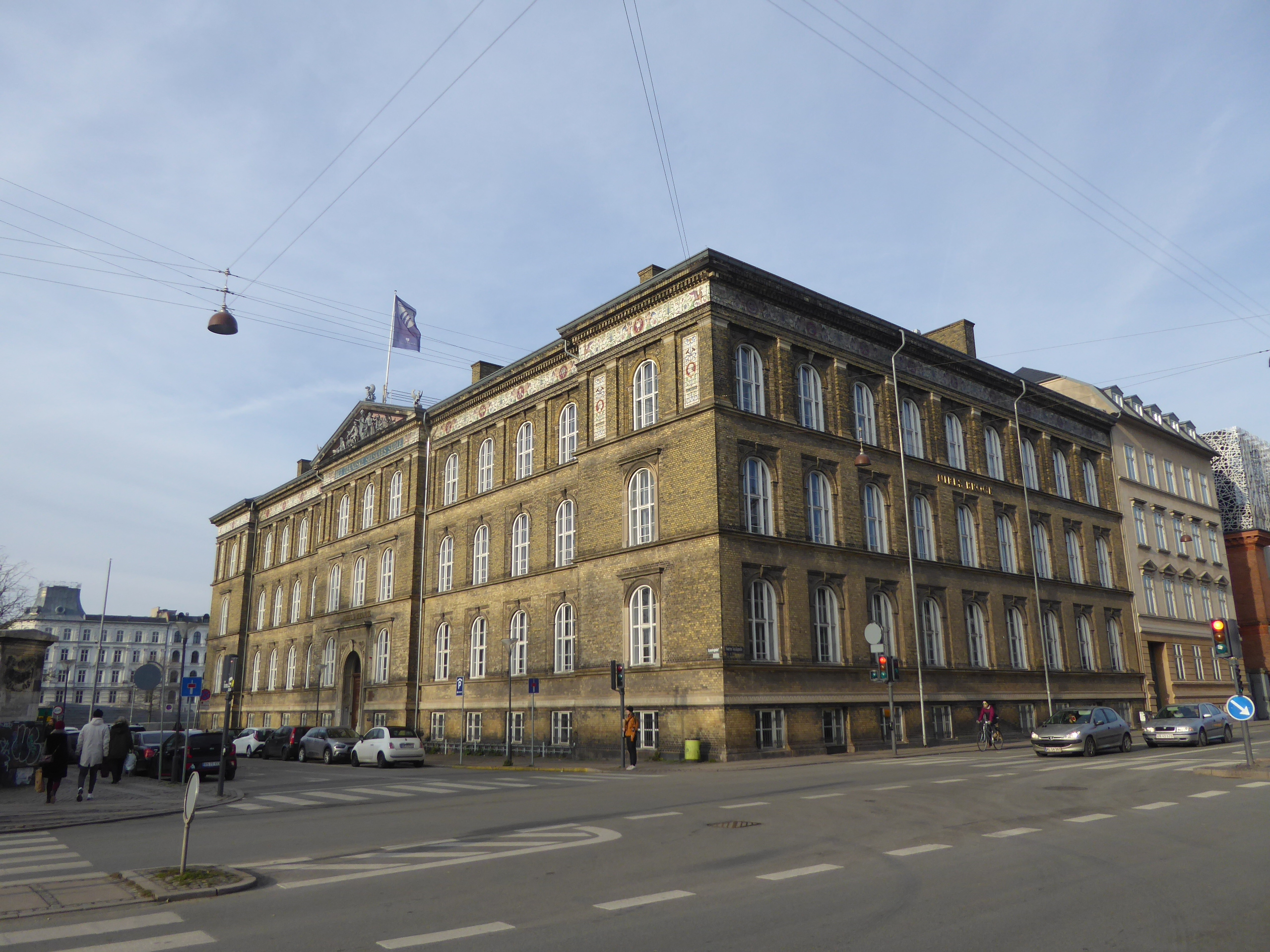 The old school building Det tekniske Selskabs Skole at the corner of Linnésgade and Nørre Voldgade in Indre By in Copenhagen.